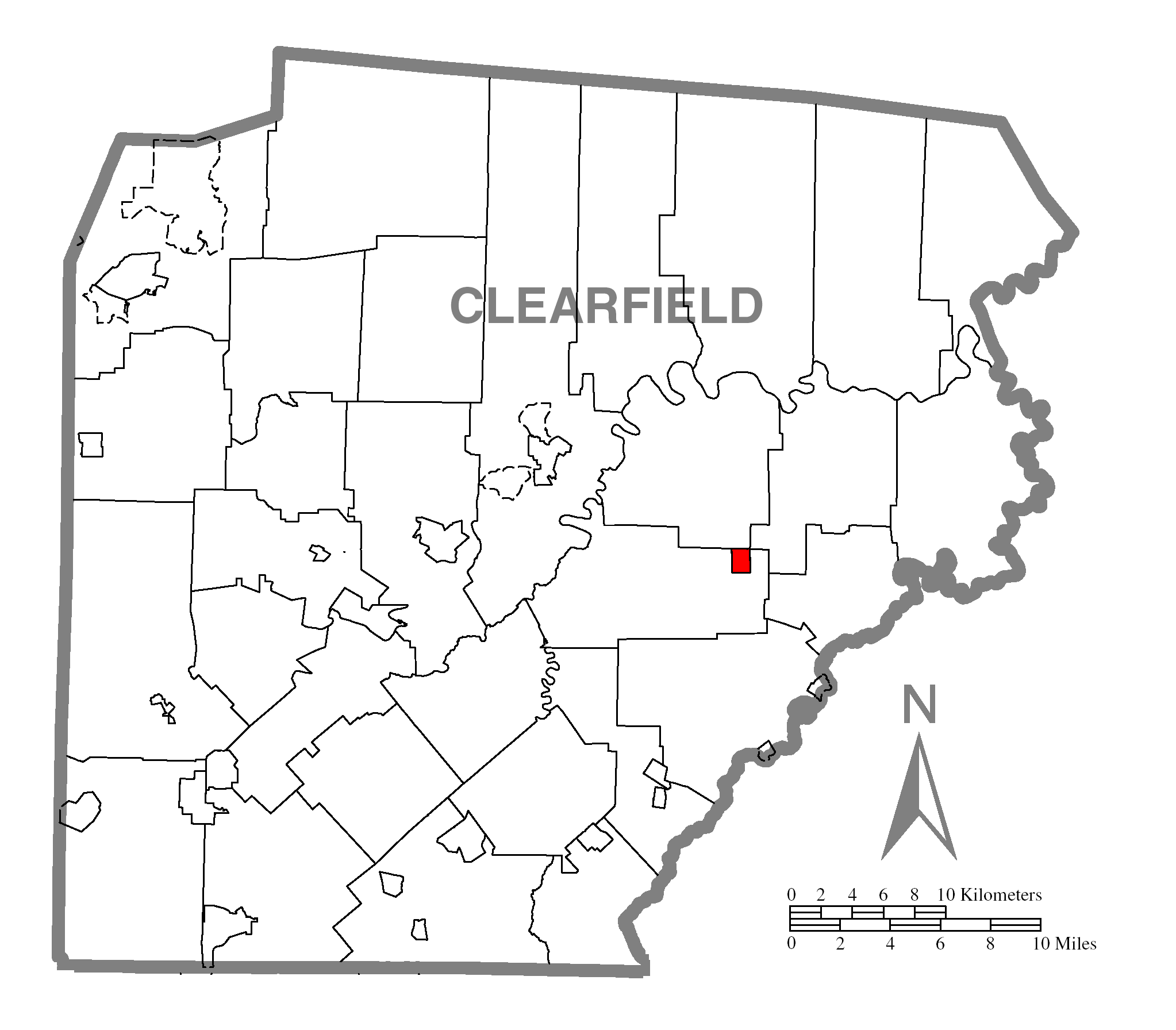 A map of Clearfield County showing Wallaceton, Pennsylvania (alternate) highlighted on the map.